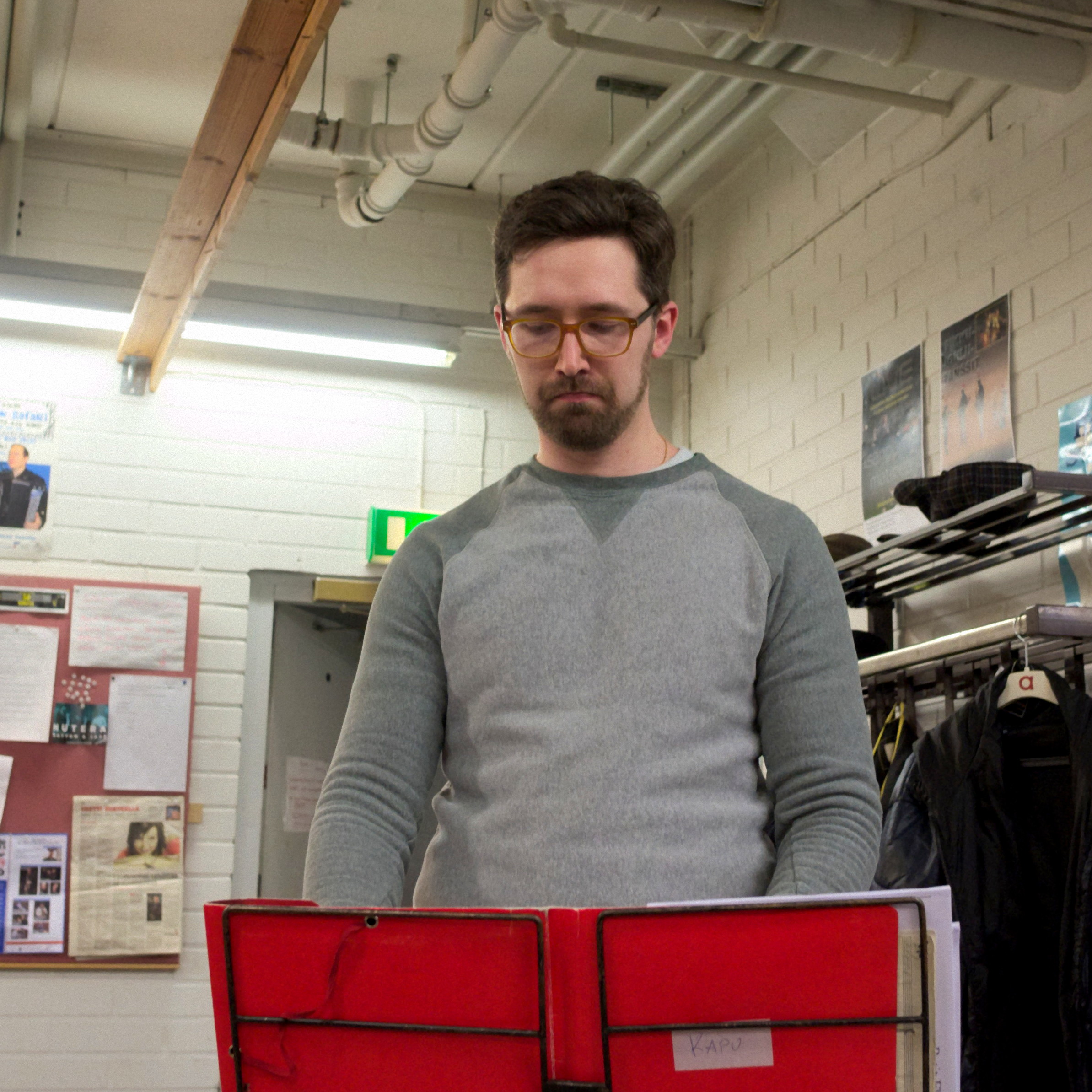 Johannes Salomaa Finland